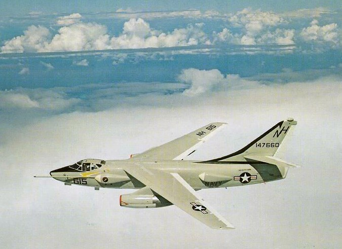 A U.S. Navy Douglas EKA-3B Skywarrior (BuNo 147660) of electronic countermeasures squadron VAQ-133 Wizards. VAQ-133 was assigned to Attack Carrier Air Wing 11 (CVW-11) aboard the aircraft carriers USS Constellation (CVA-64) and the Kitty Hawk (CVA-63) for a deployment to Vietnam from May 1969 to February 1970 followed by 6 November 1970 to 17 July 1971.